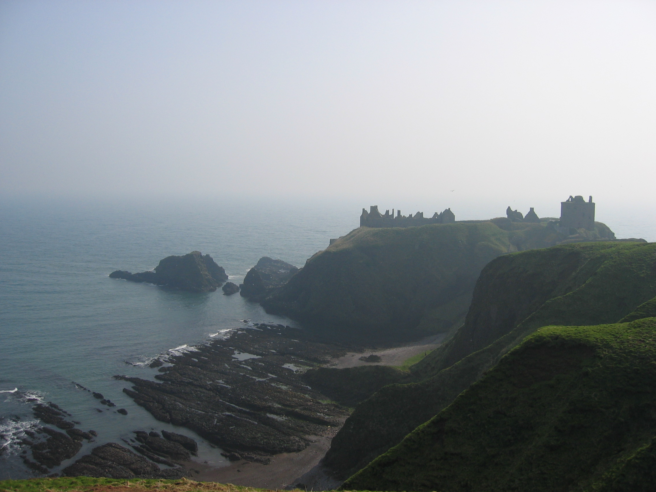 Aberdeen Spring 2005